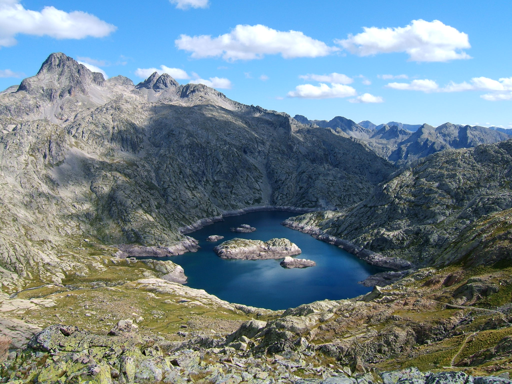 Reservoir of bachimaña Alto